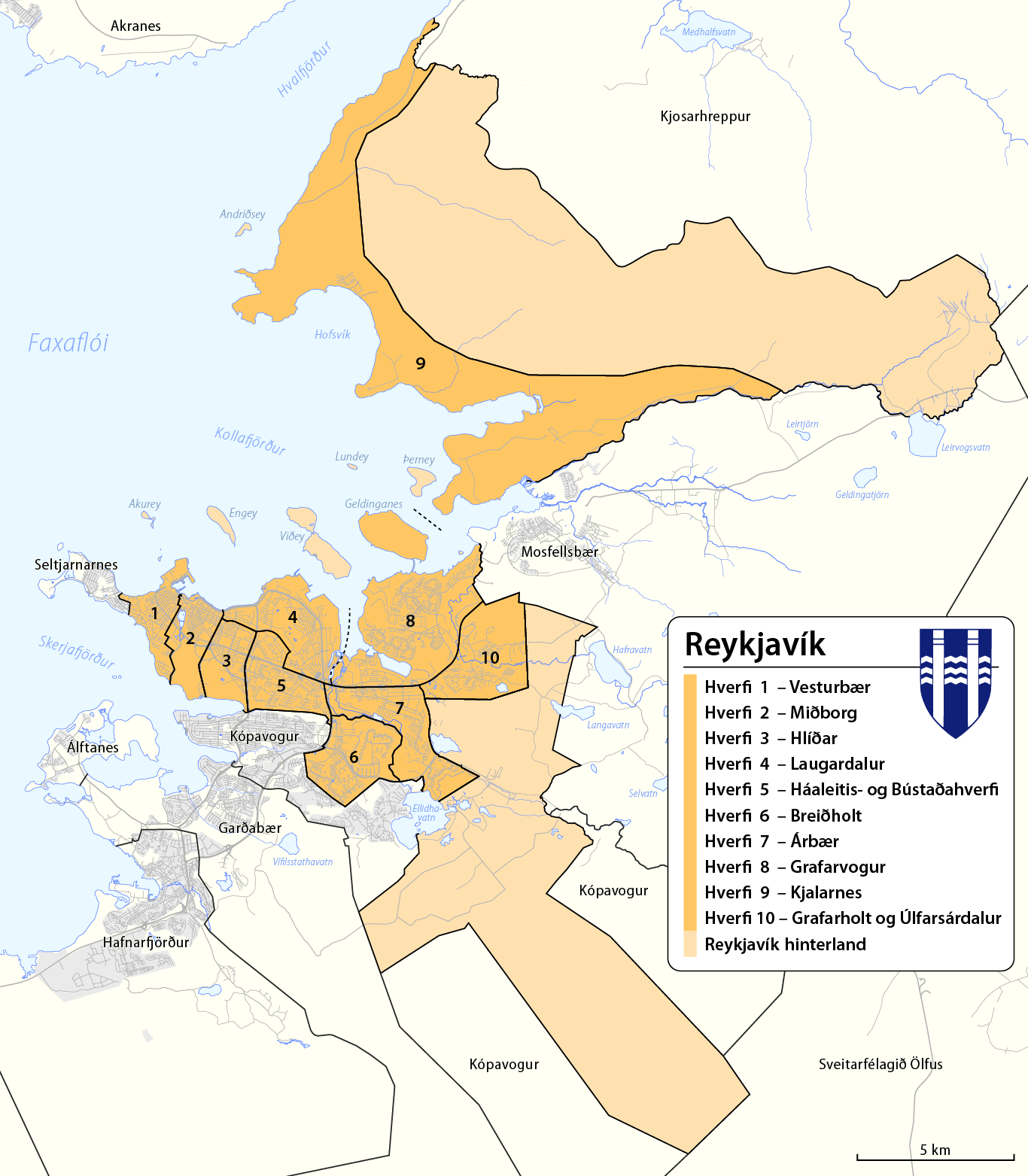 Map of adminstartive units of Reykjavík